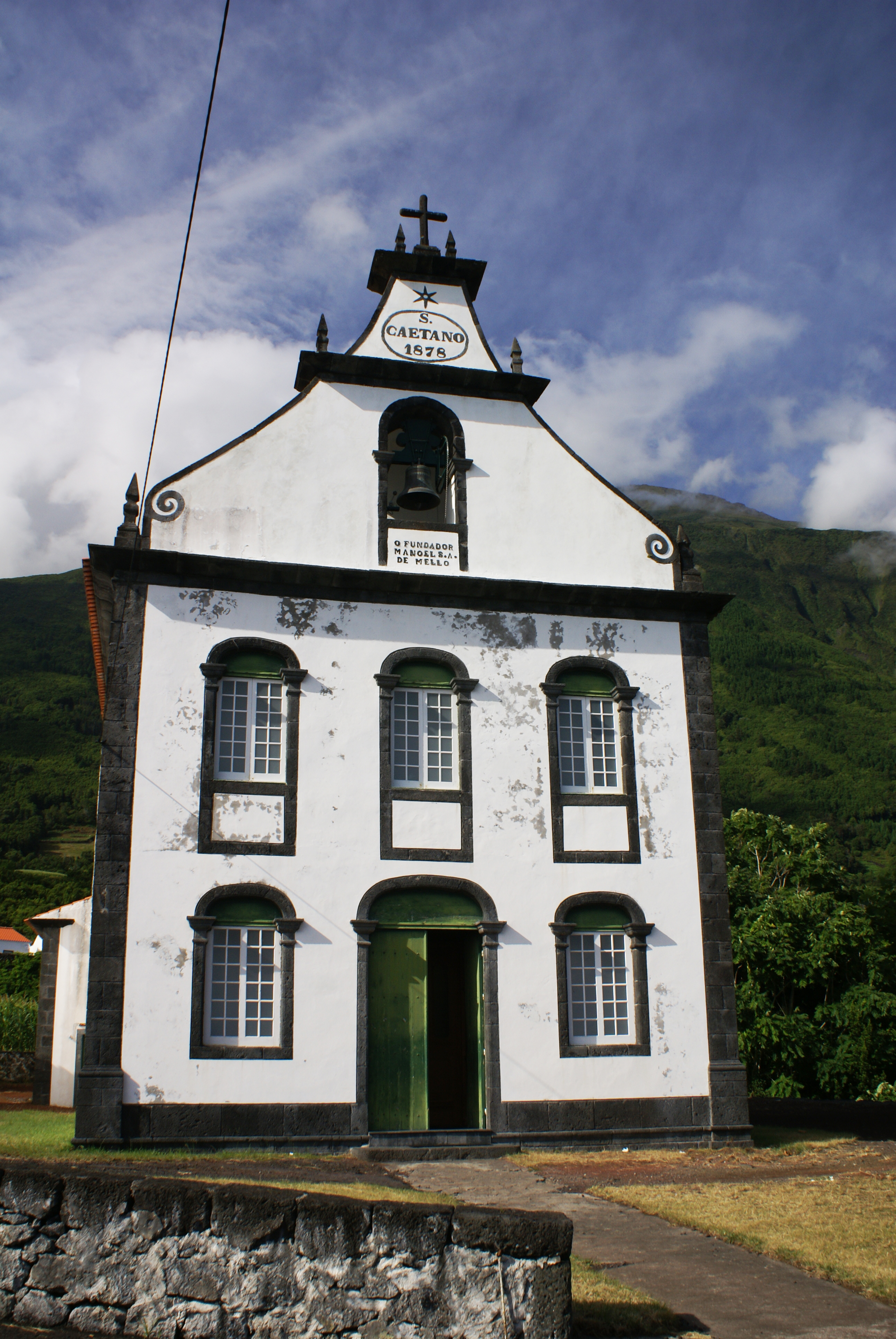 Front façade of the Church of São Caetano, São Caetano, Madalena, Pico (Azores), Portugal